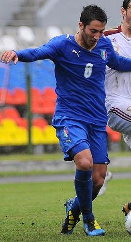 Andrea Bertolacci